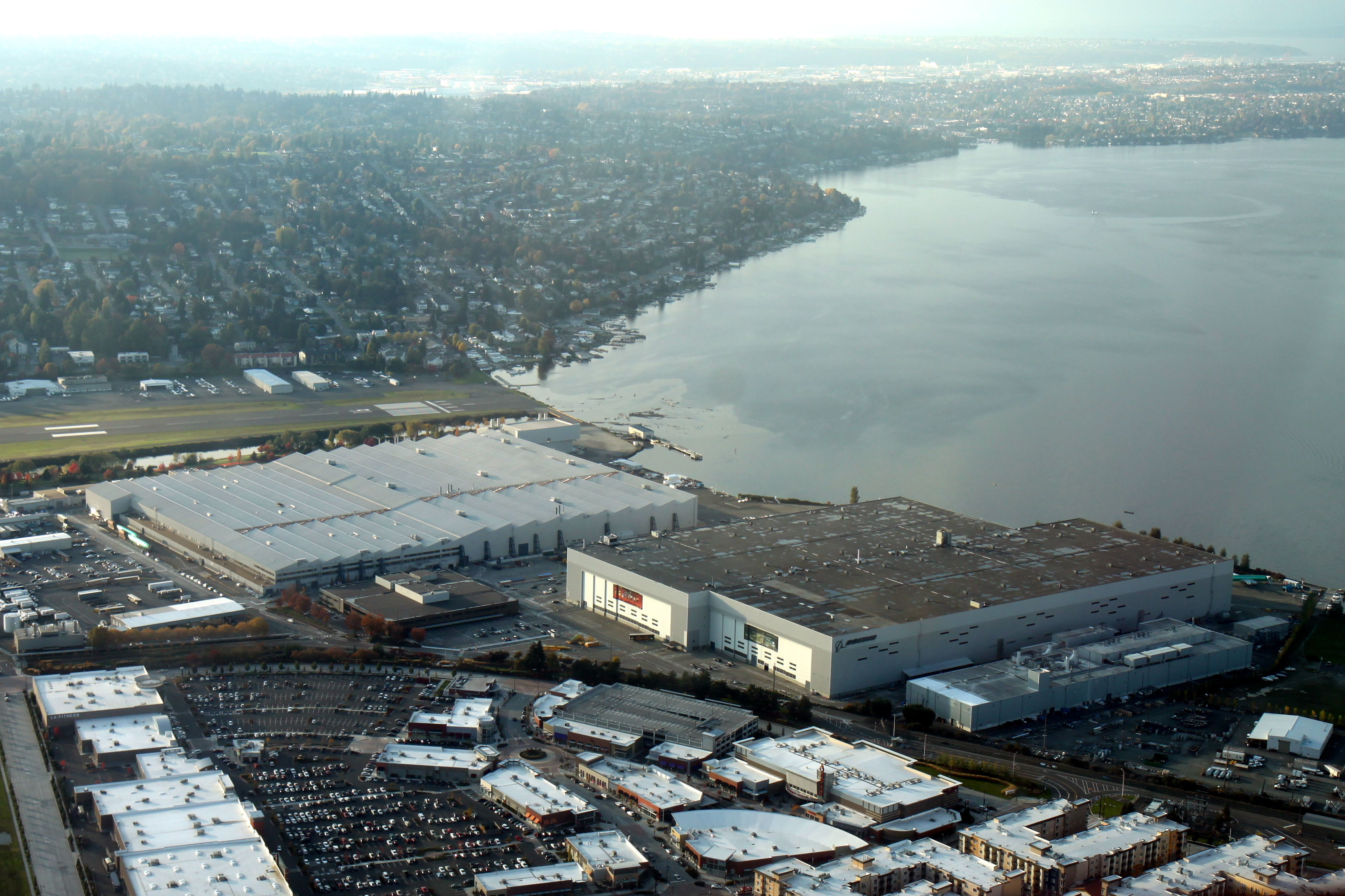 Boeing's Renton Factory seen from the air, November 2011